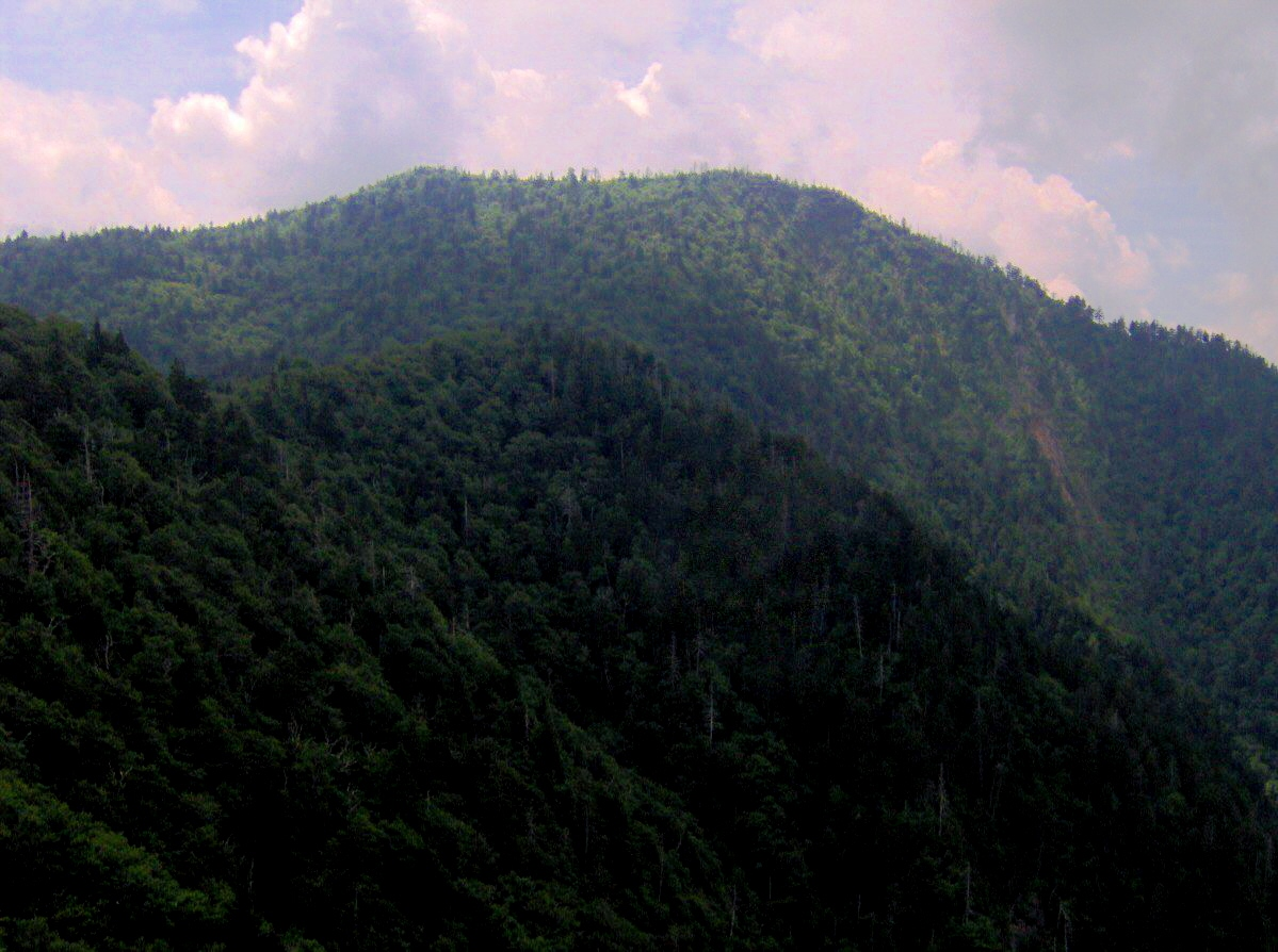 Mount Kephart (el. 6217 feet/1,895 meters) in the Great Smoky Mountains, looking west from Charlies Bunion.